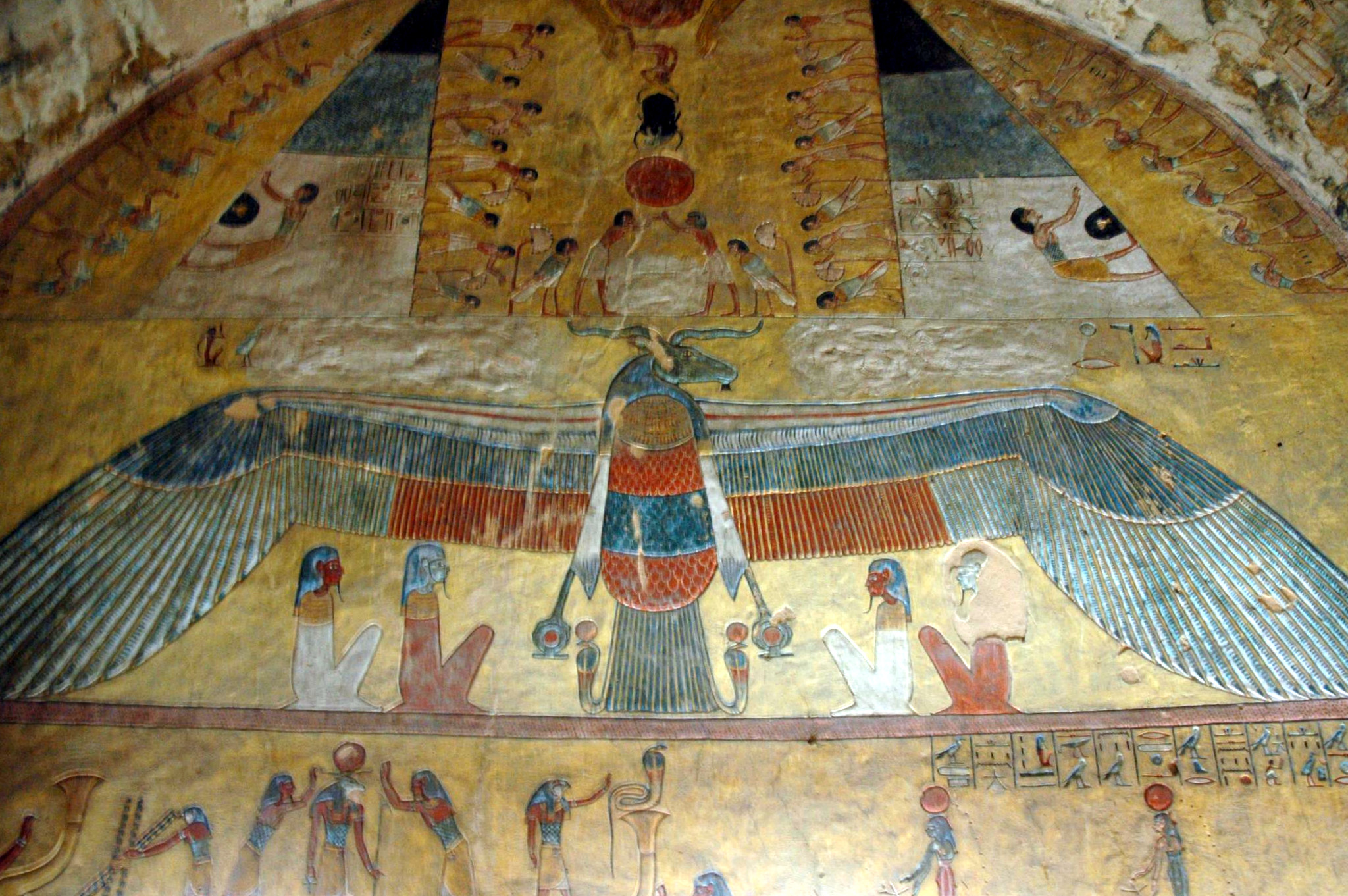 View of KV14--Tomb of Setnakht. (NOT Ramesses III as the flickr source states)